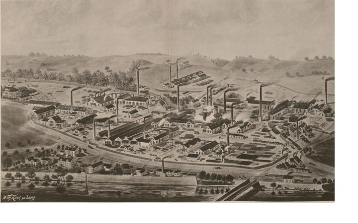 Königin-Marien-Hütte in its state of 1892